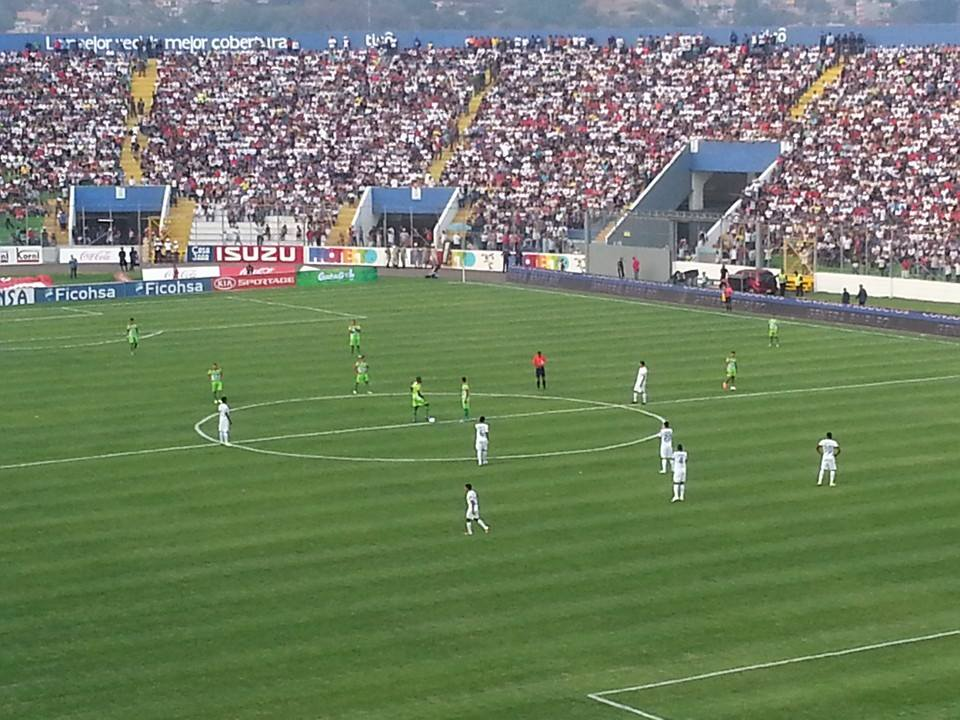 Olimpia